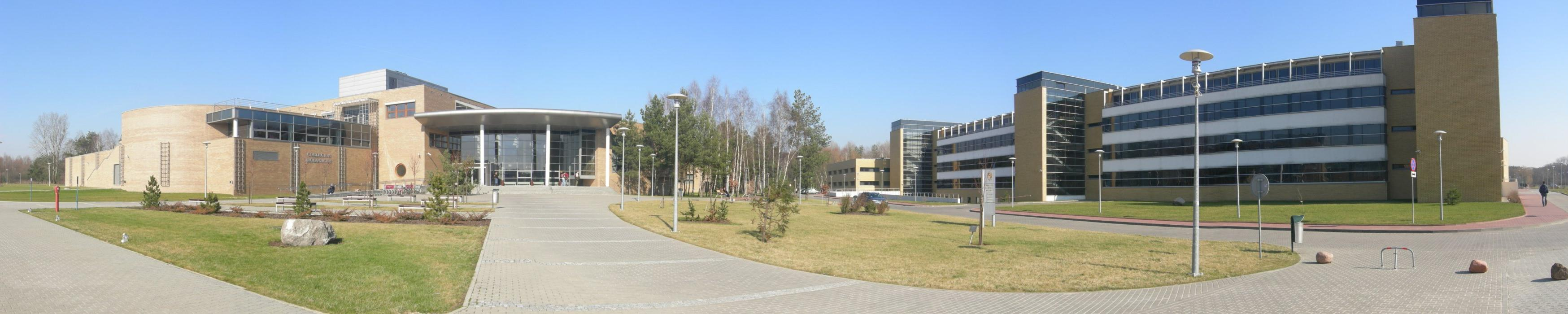 Adam Mickiewicz University in Poznań, Poland